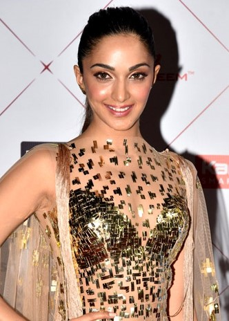 Kiara Advani graces the HT Style Awards 2018.